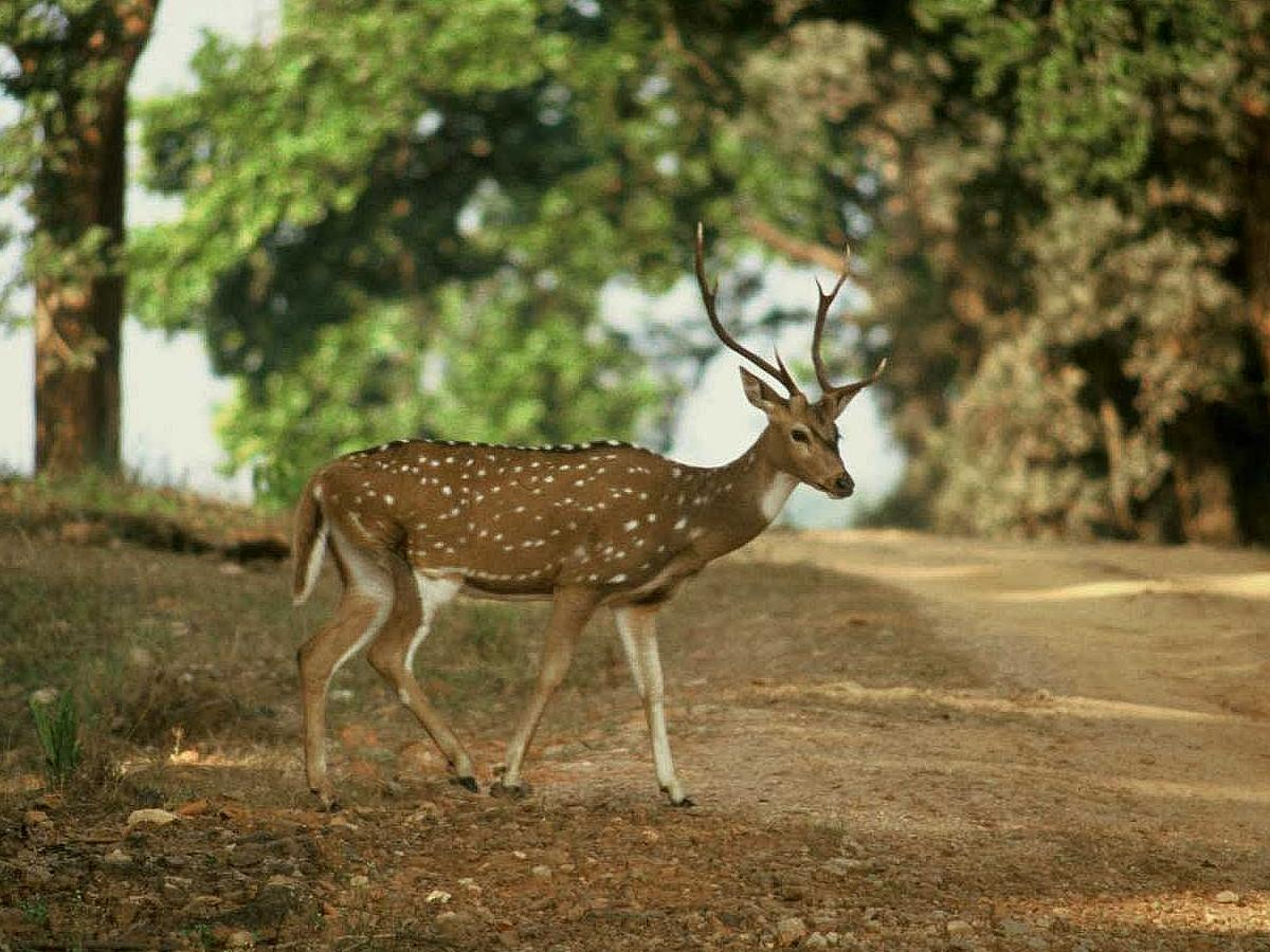 Spotted deer (Axis axis) at Kanha National Park, India